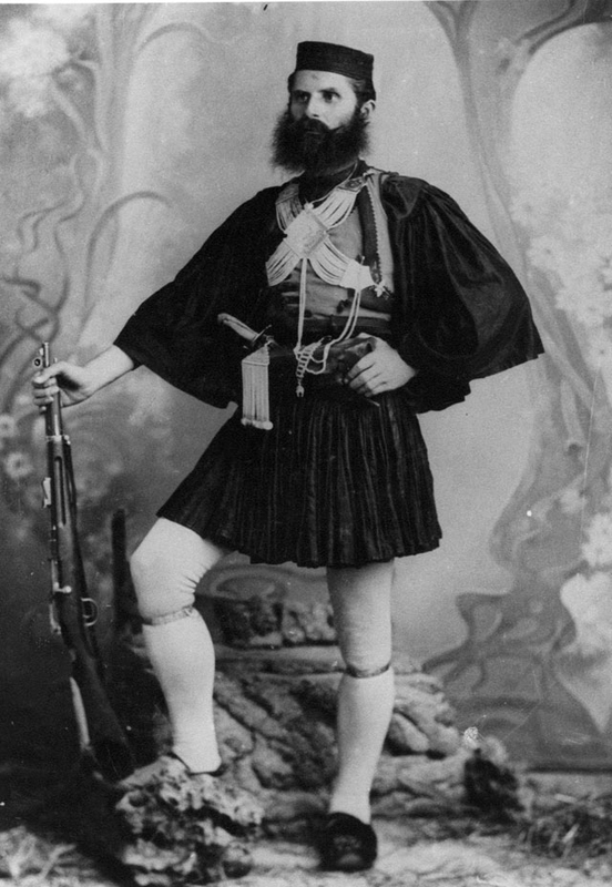 Pavlos Perdikas